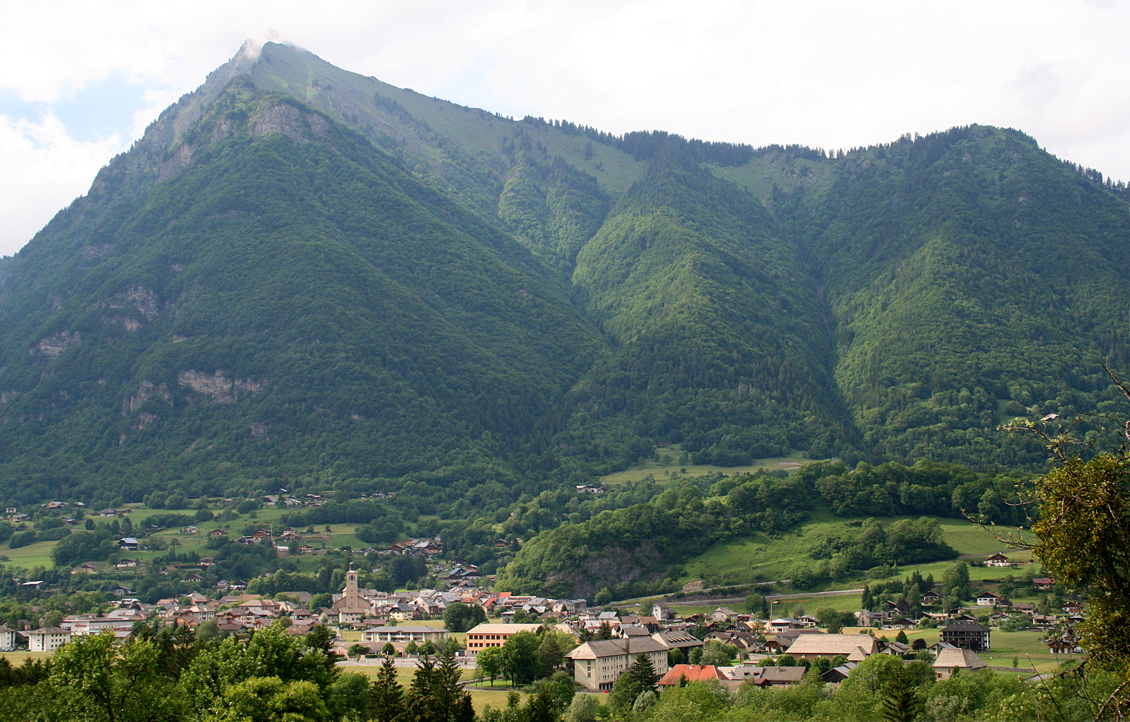 Taninges (Haute-Savoie - France), the village at the foot of the Pic de Marcelly.